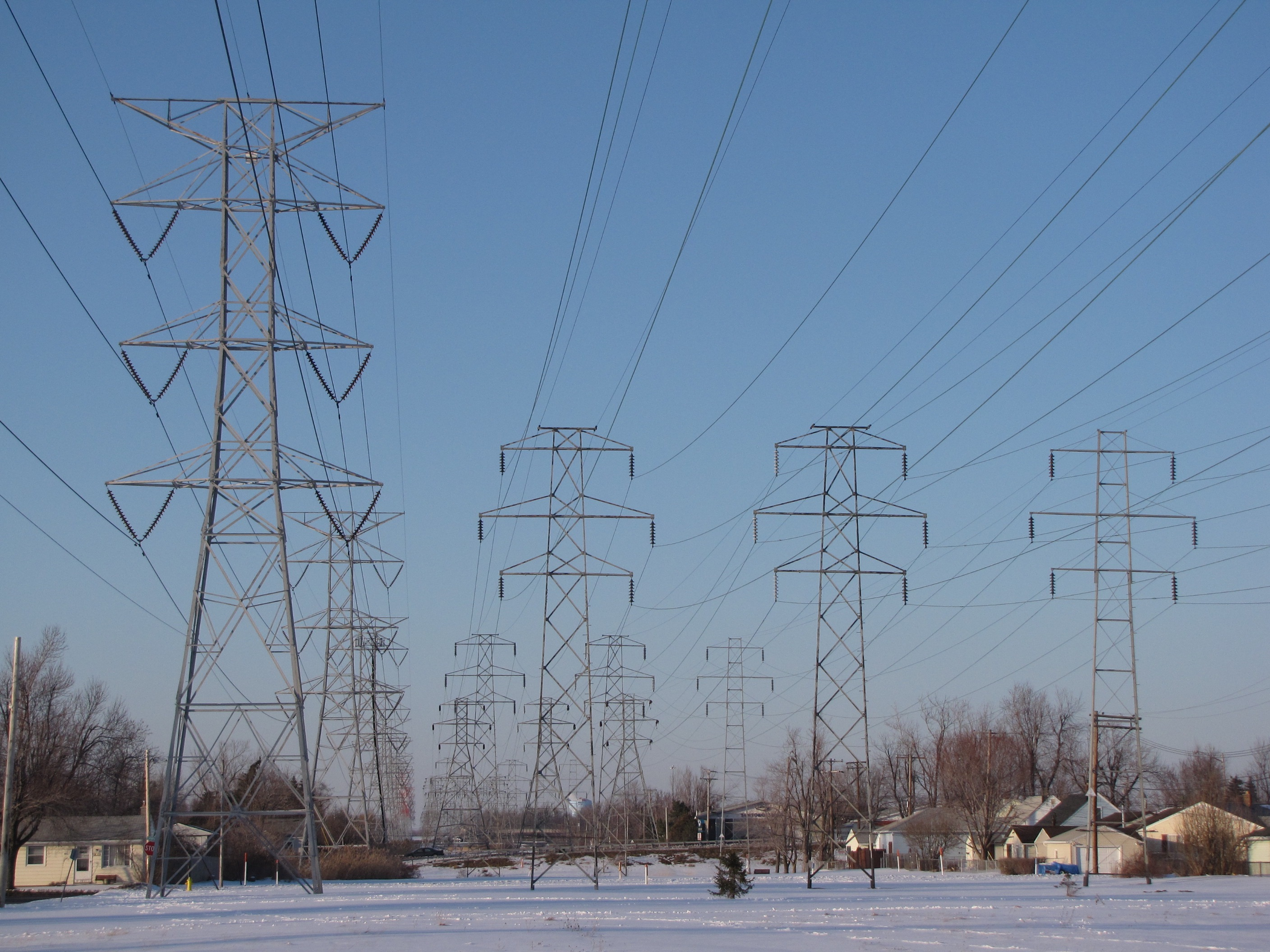 Energy corridor from Niagara Falls, near Buffalo airport, Cheektowaga, New York